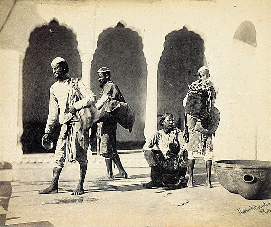 "Bheesties" - This photograph is part of a series taken by the firm of Shepherd and Robertson for a book entitled 'The People of India' by Forbes Watson, published in 1868. The Bheesties are water sellers, and according to Watson the ones seen here are Muslim. Many of them served with the army and were highly regarded for their bravery in battle. 'They go into action with their corps, supplying water under the hottest fire. Many a wounded or dying soldier has been relieved in his agony of thirst by these gallant fellows'.